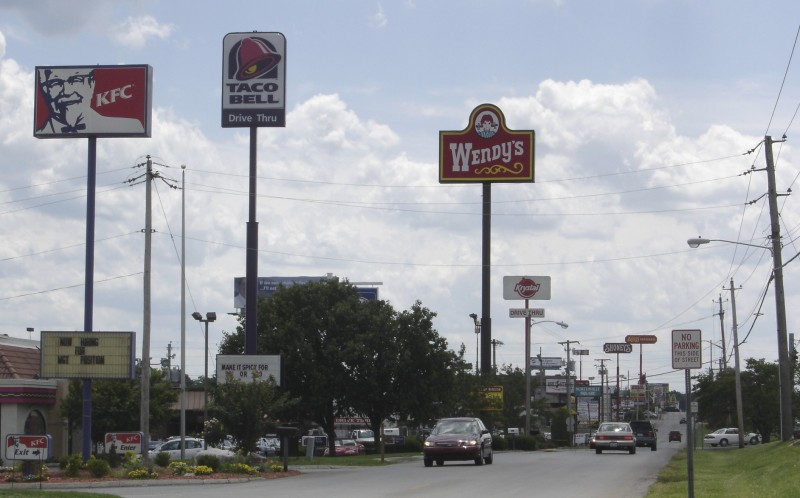 Foto de una carretera en la cual se destacan anuncios de los restaurantes de comida rápida KFC, Wendy's y Taco Bell entre otros. Picture of a highway in which fast food ads are featured:KFC, Wendy's and Taco Bell among others. Taken in Bowling Green, KY.